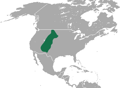 Dwarf Shrew (Sorex nanus) range